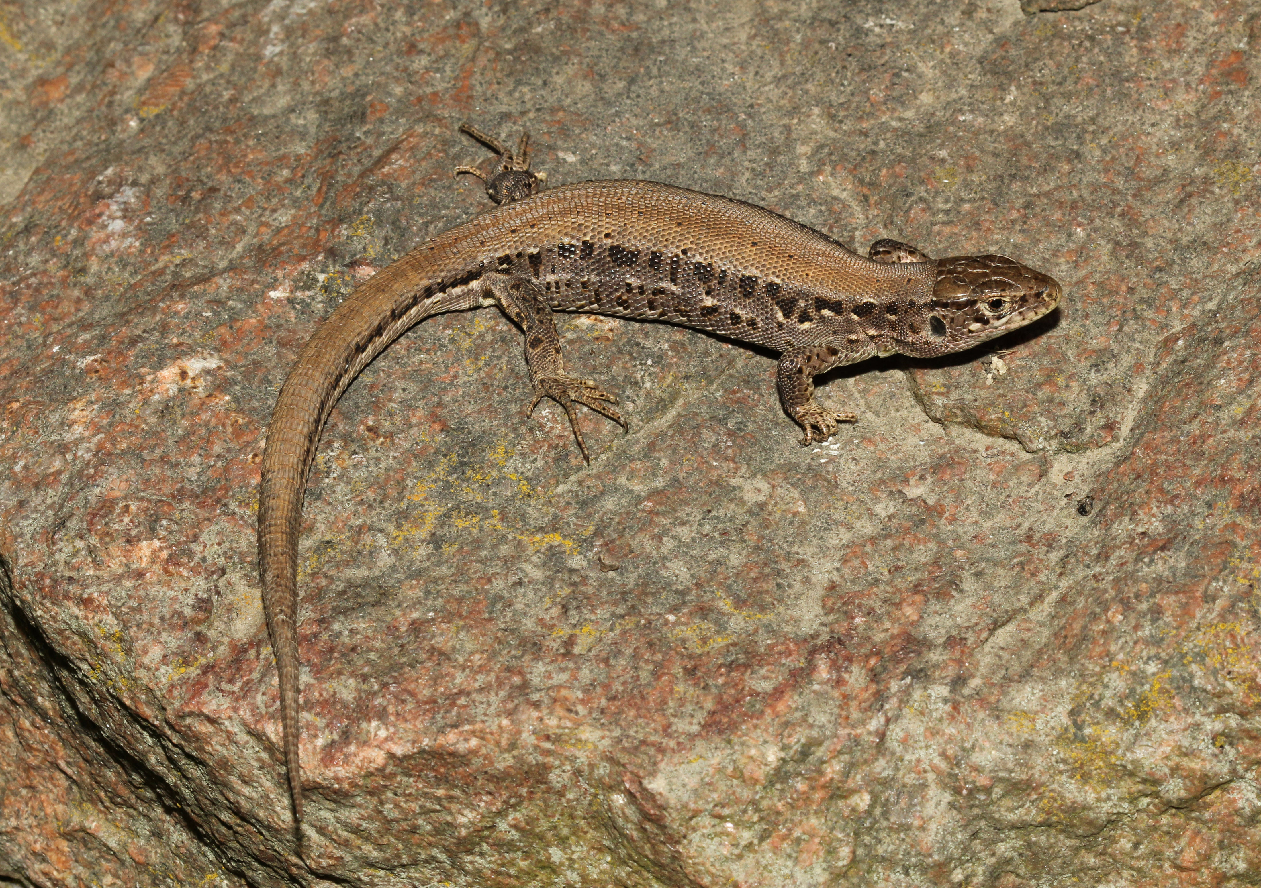 Sand Lizard female (Lacerta agilis ssp. argus). Ukraine